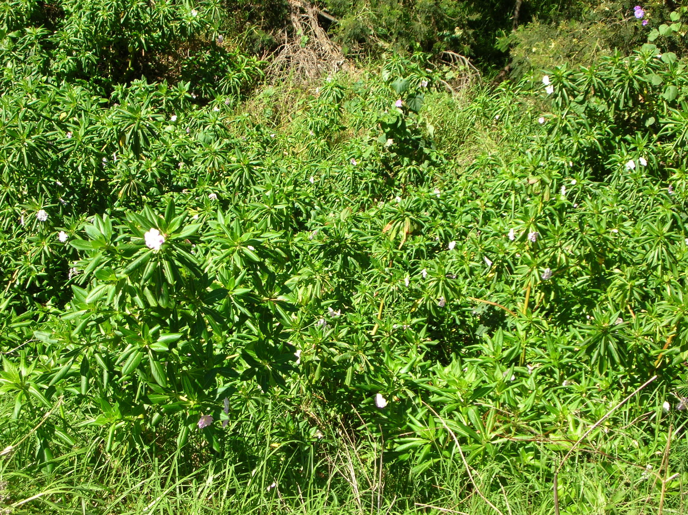 Impatiens sodenii (habit). Location: Maui, Kula